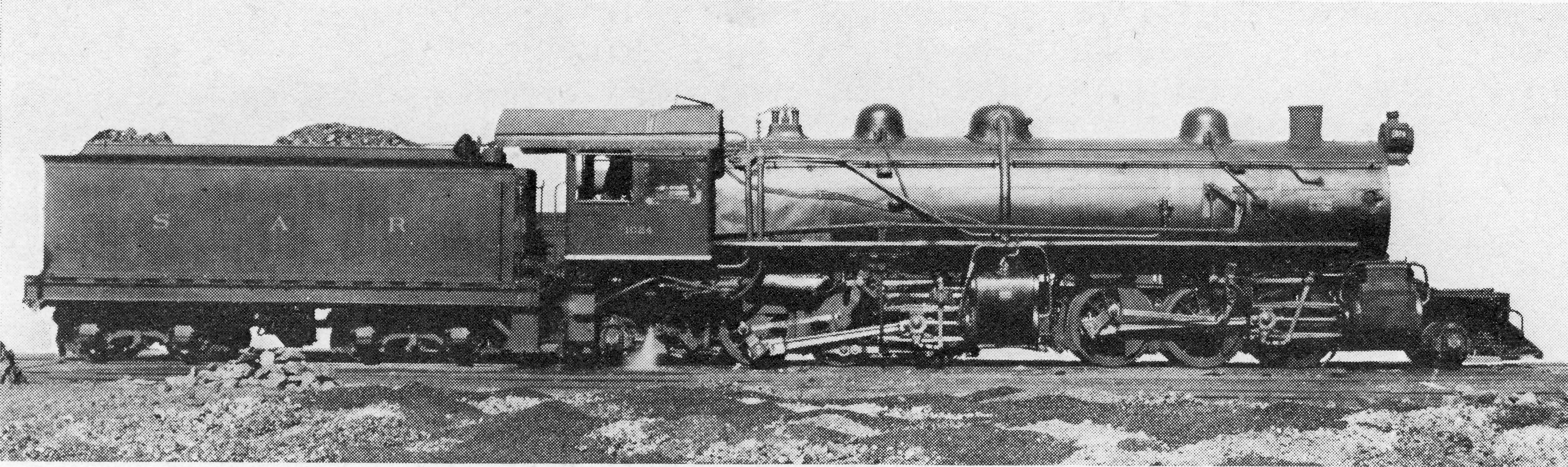 SAR Class MG 1628 (2-6-6-2), ex CSAR 1024